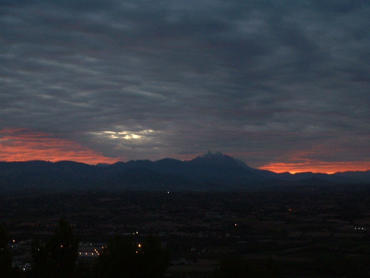 Gran Sasso at dusk